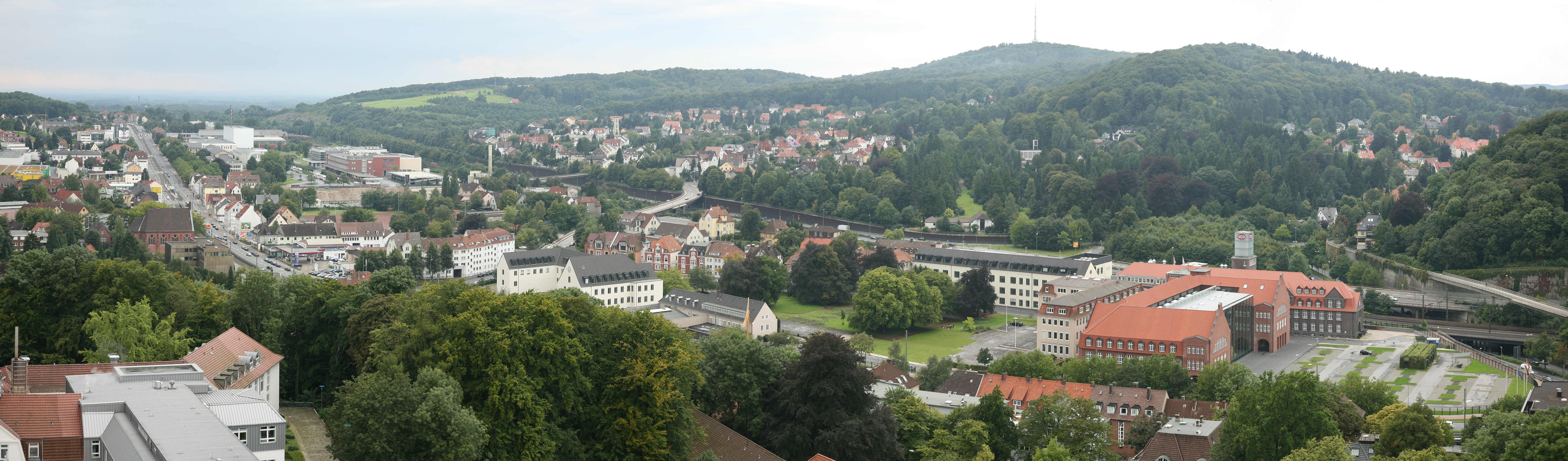 Dr. Oetker factory in Bielefeld, Germany. Picture taken from the tower of the Sparrenburg castle. This image was created with Hugin.